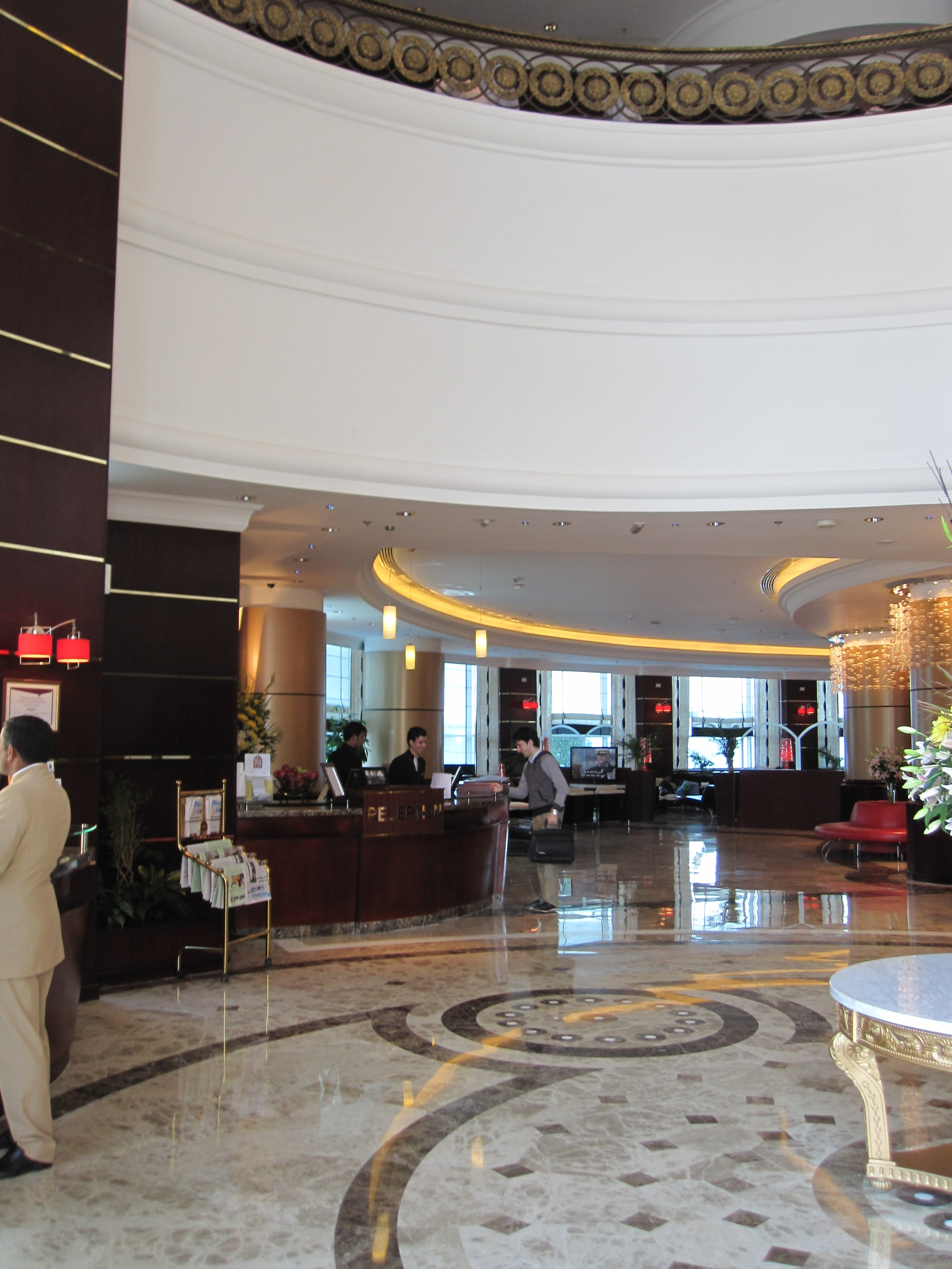 Retaj Al Rayyan hotel lobby, Doha